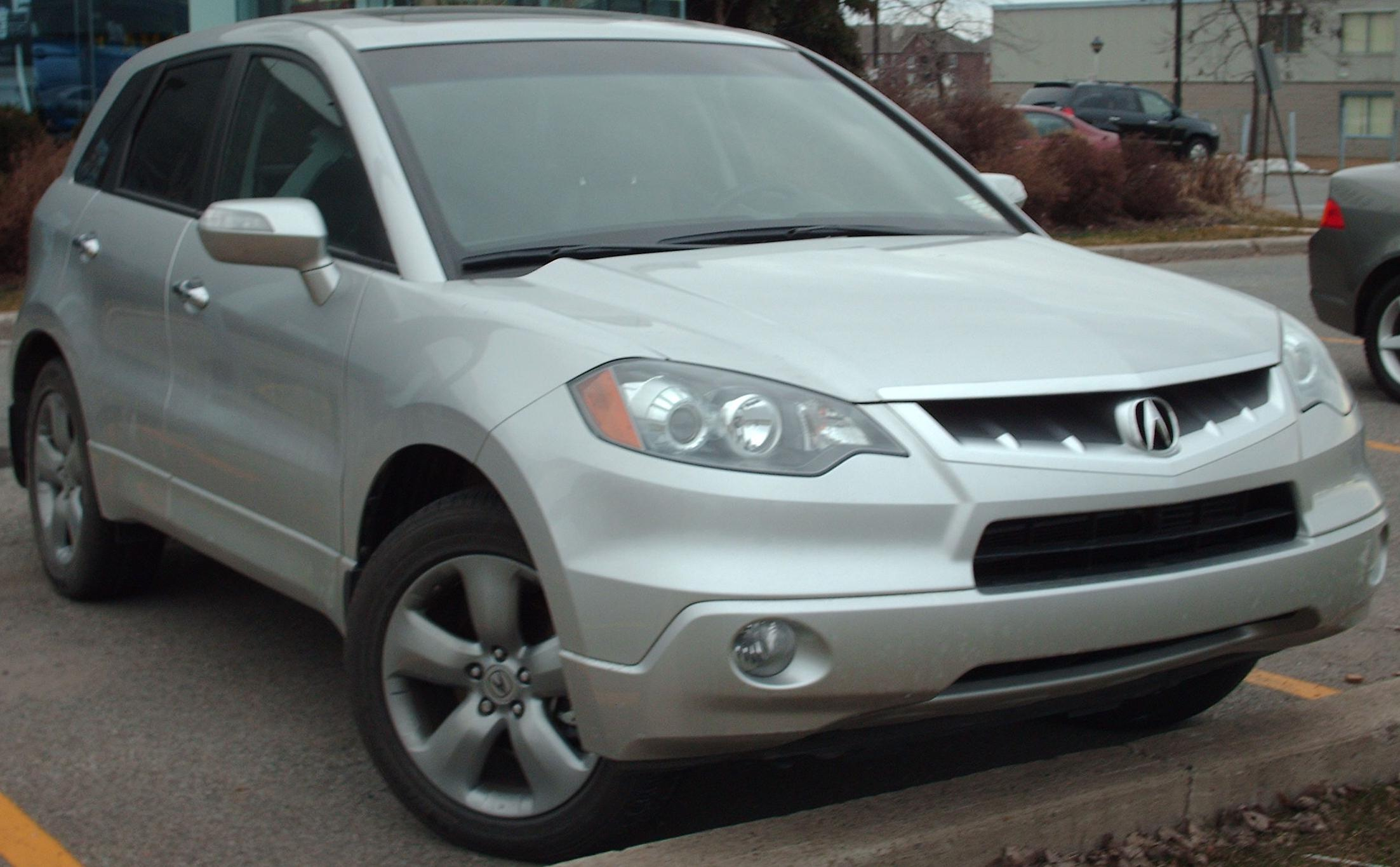 2007 Acura RDX photographed in Montreal, Quebec, Canada.